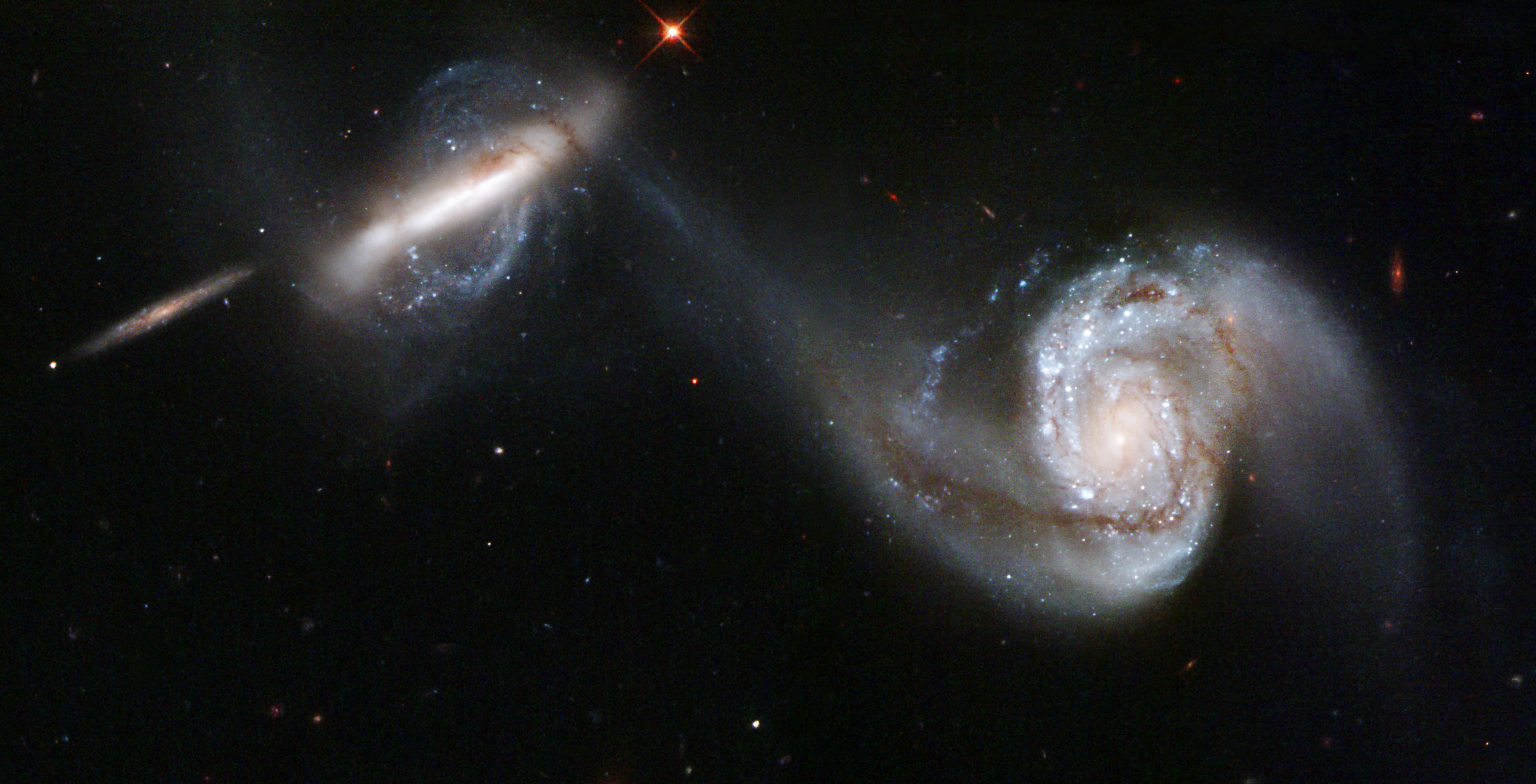 Image of Arp 87, a system of two galaxies: NGC 3808A (right) and NGC 3808B (left). The galaxies are embracing due to their individual gravitational pulls.